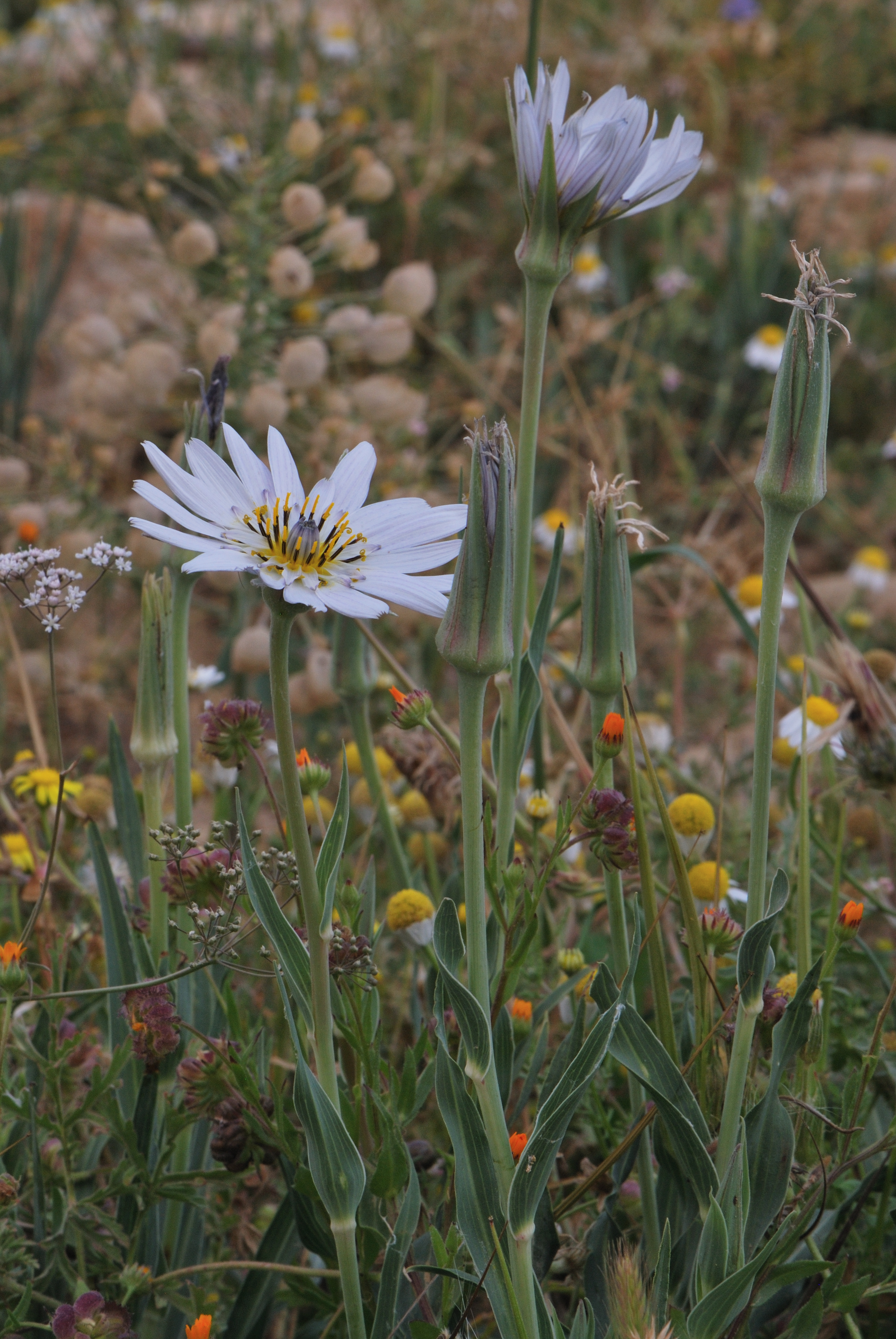 Tragopogon collinus, Borot Lotz, Negev Mountains, Israel, April 16, 2010.